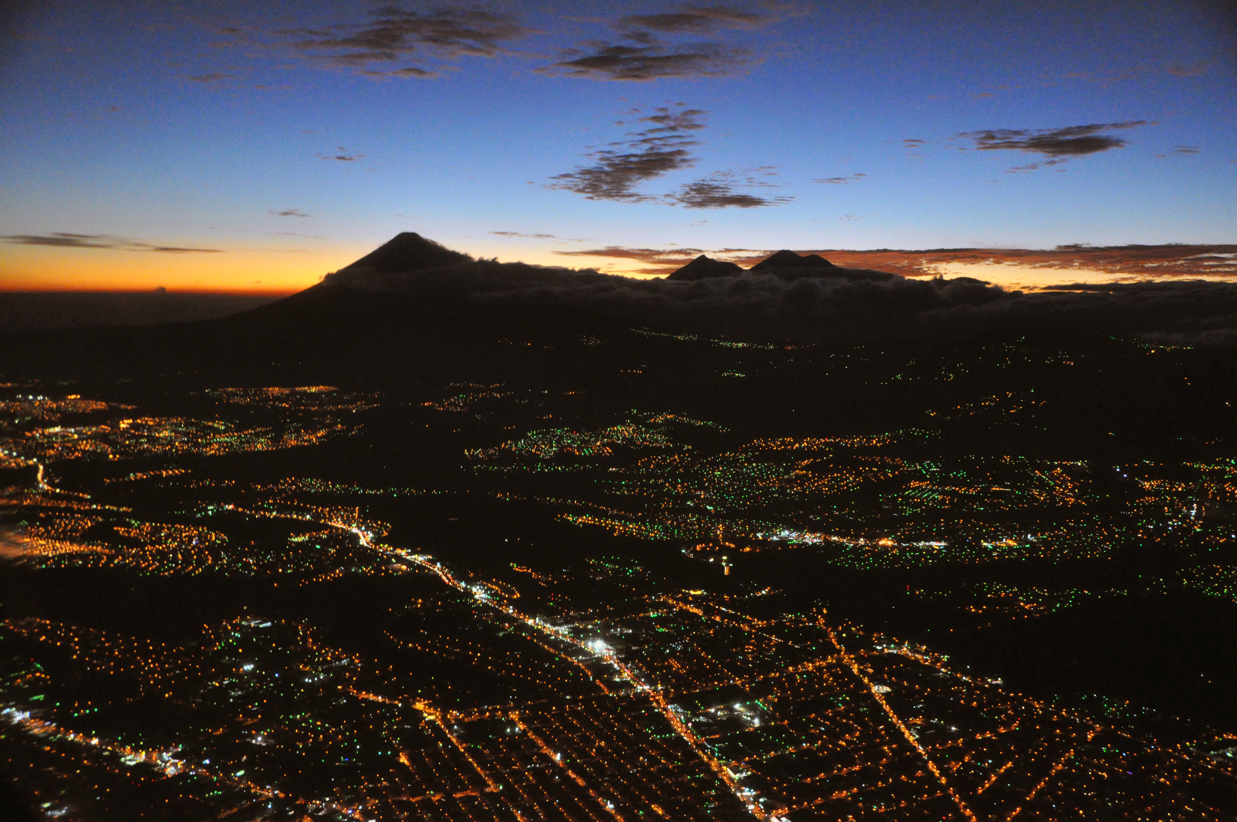 Guatemala City, aerial view, night, 2009, Overlooking Aguilar Batres, and Zone 11 and 12, from right to left.